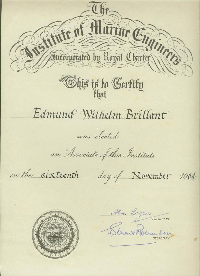 British Royal Marine Engineer